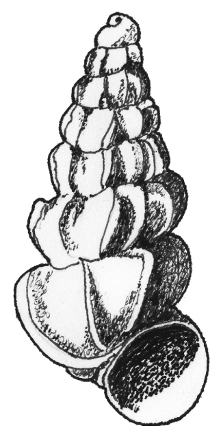 Drawing of the apertural view of the shell of Paludiscala caramba. Length 2.5 mm.